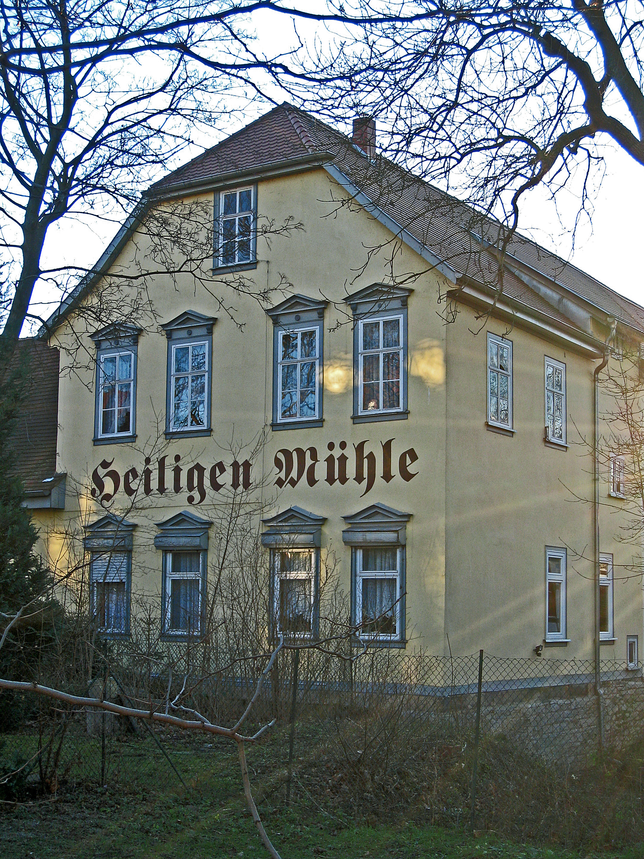 Mill Heiligenmühle Erfurt, Mittelhäuser Straße 16